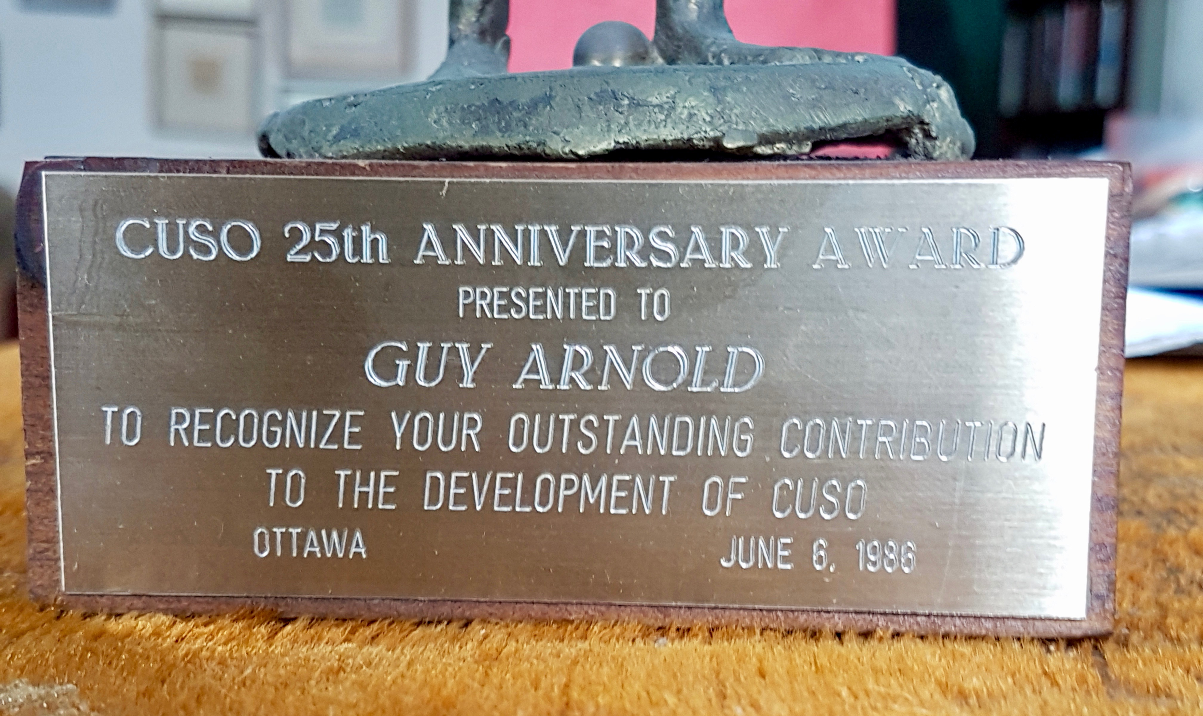 Plaque on an award given by the Canadian University Service Overseas to Guy Arnold who helped found the CUSO and devoted four years to helping establish it.